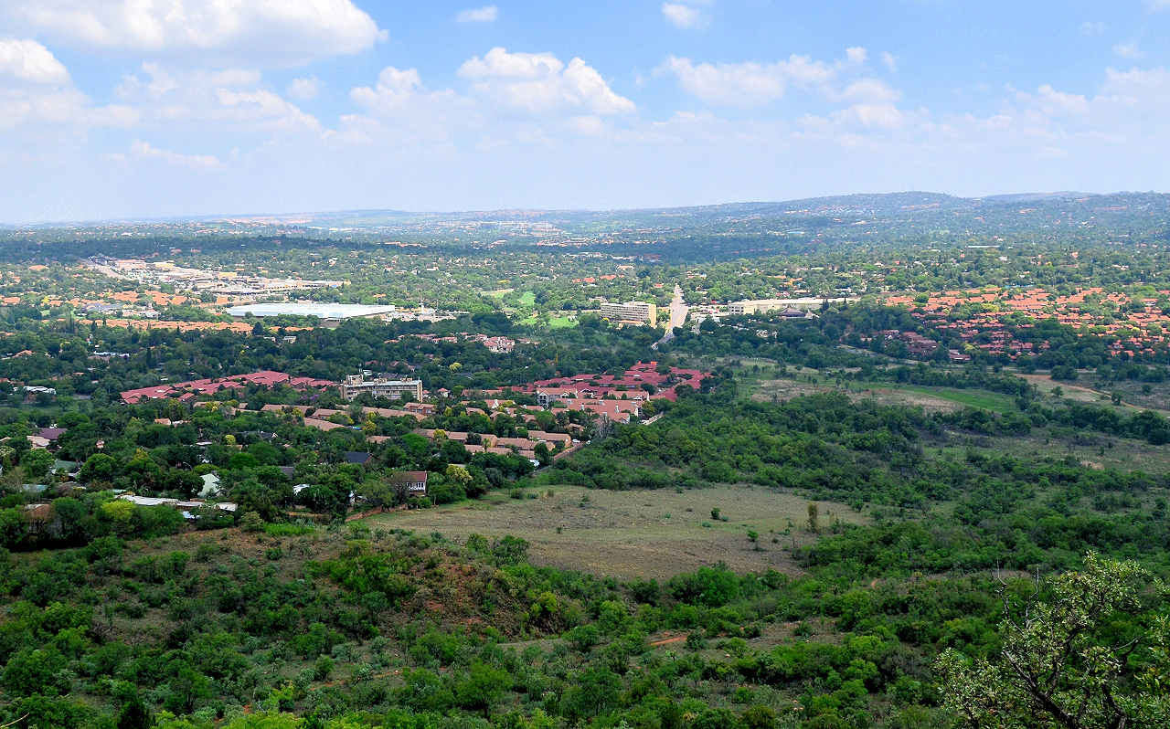 View over Faerie Glen from the Faerie Glen Nature Reserve